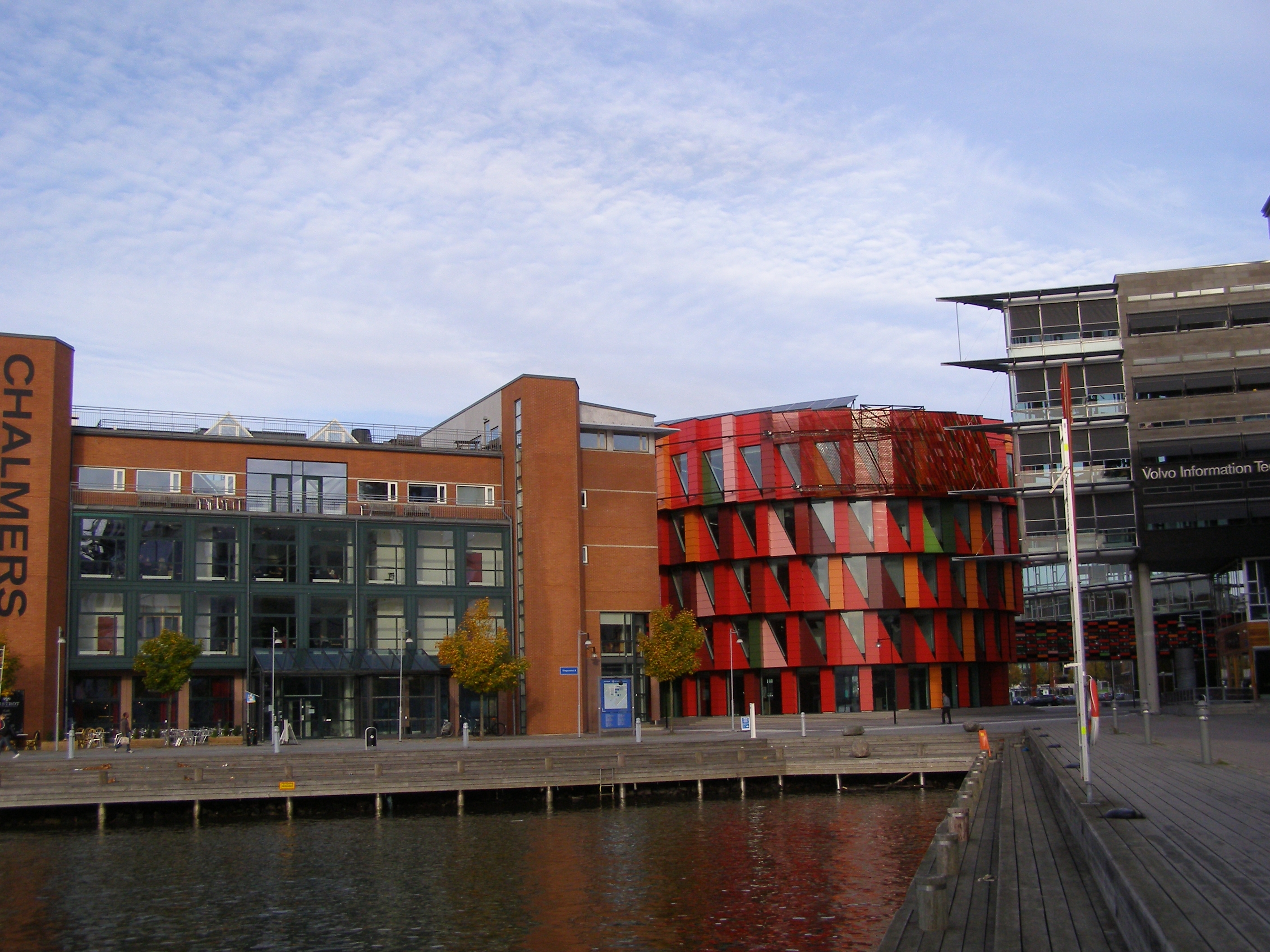 Gothenburg - Chalmers University of Technology